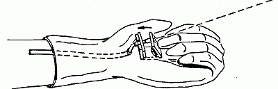 This is Fig. 4 in the US patent that was the subject of the litigation in Kimble v. Marvel Entertainment. The drawing shows the device in controversy. Other information Contents of US patents are no copyright protected